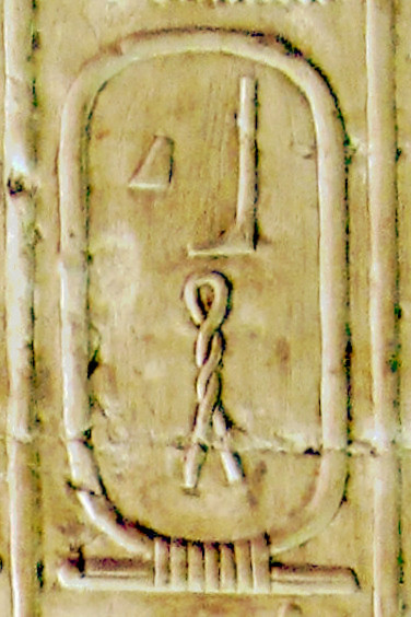 Cartouche 8, Abydos King List. Temple of Seti I, Abydos, Egypt.